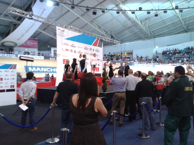 Podium men's keirin at the 2013-14 Track World Cup in Manchester